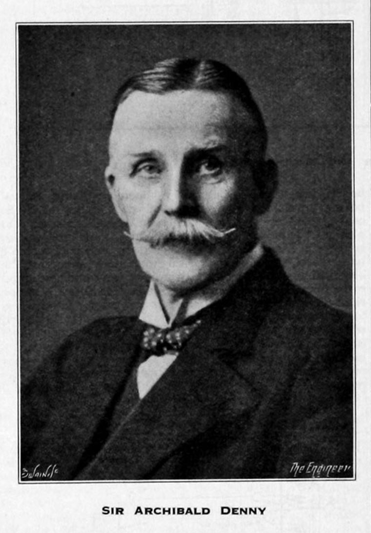 Portrait of Archibald Denny.